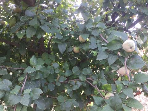 Apple tree in Skopje region